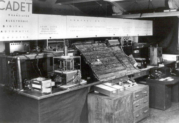 Harwell Cadet Computer - one of the first transistorised computers